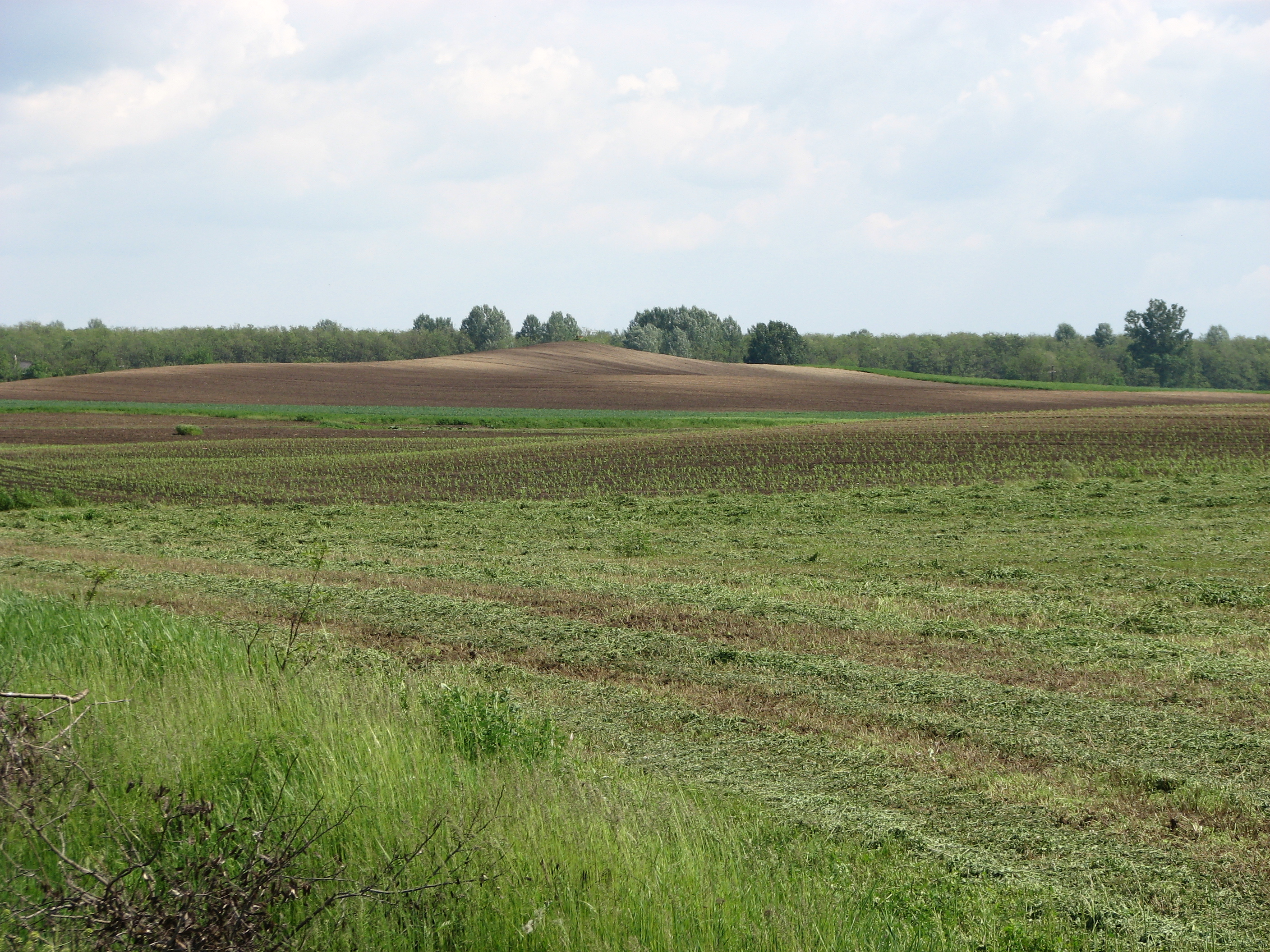 The "highest" point of Hajdúdorog, Hungary. The so-called Debeje-halom (meaning Debeje Hill) hardly reaches 162 meters.